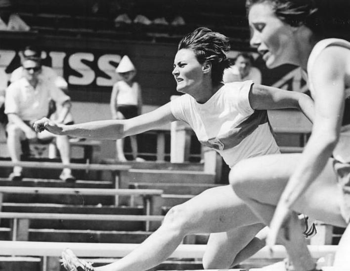 On July 19, 1964 in Jena: Inge Exner (left) became new German national champion in pentathlon with 4578 points. The former champion Karin Balzer was absent (so she is not picuted here).